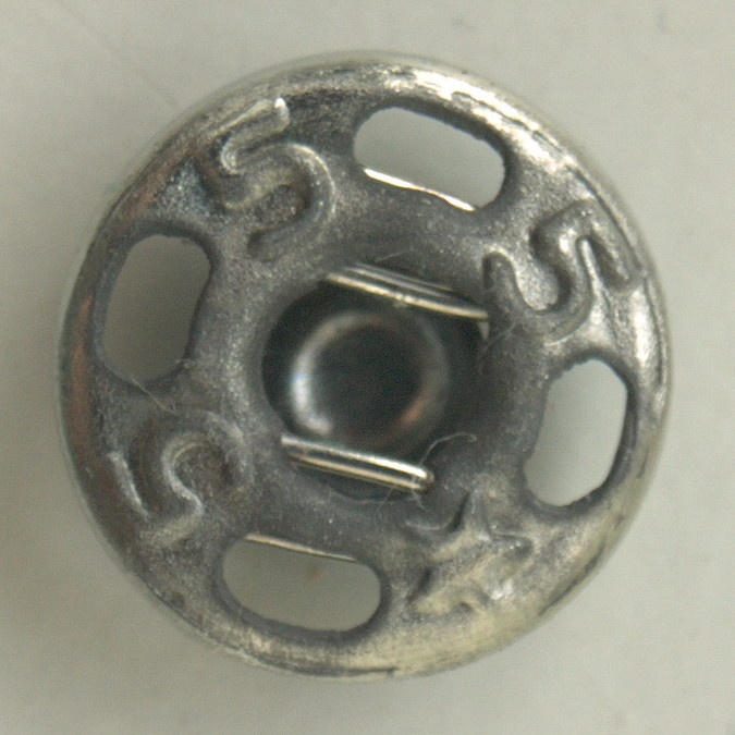 Snap fastener, recieving part, visible from side which faces the user.